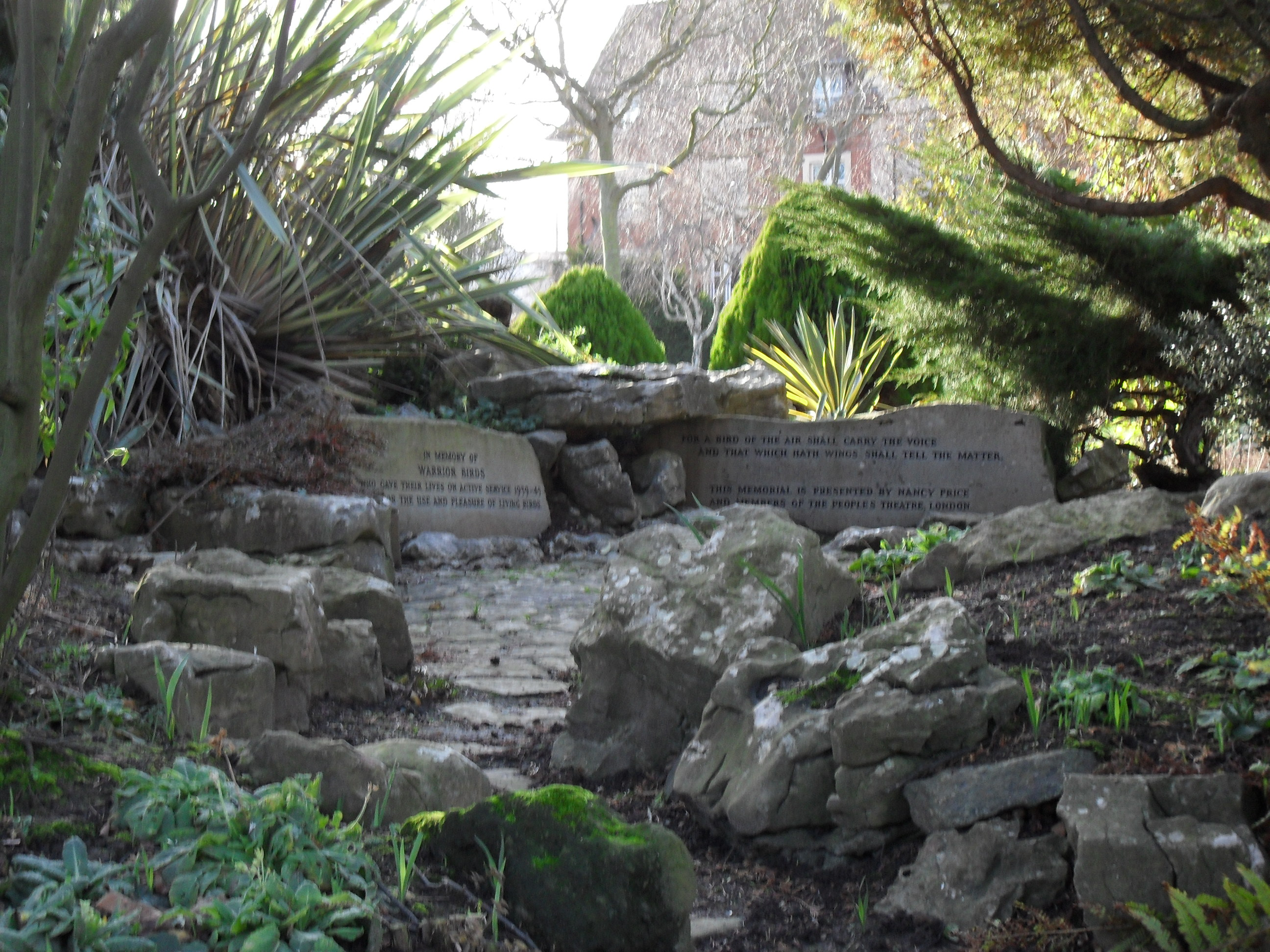 Memorial to war pigeons of the Second World War in Beach House Park, Lyndhurst Road/Brighton Road, Worthing, West Sussex, England. Unveiled in 1951.